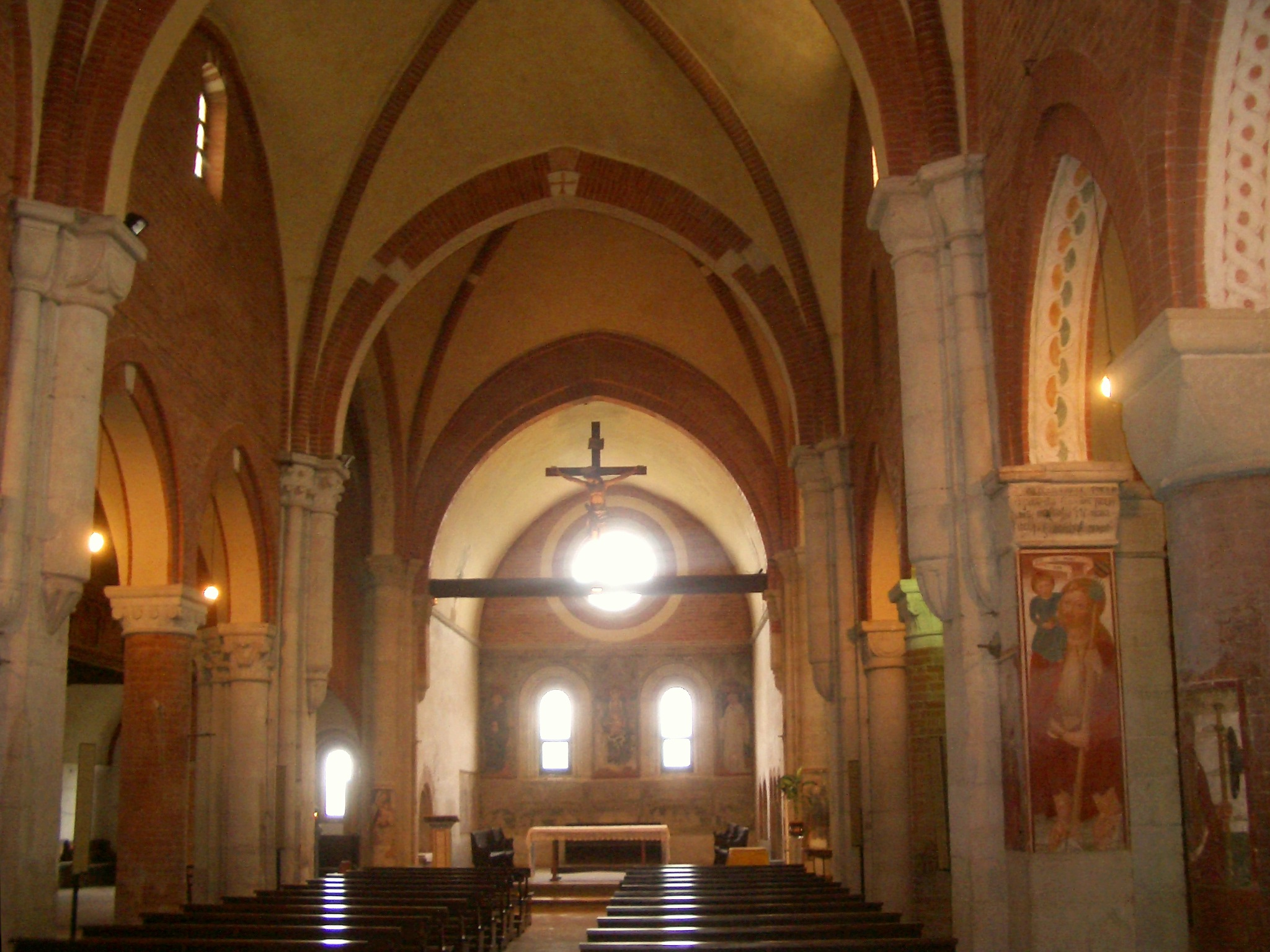 Rivalta Scrivia, Saint Mary’s Abbey”, interior of the church